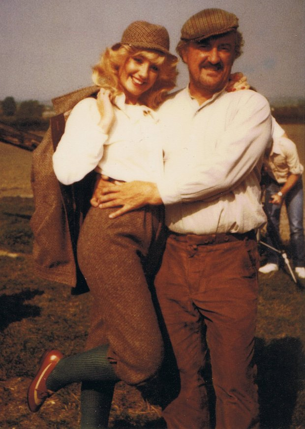 Photograph of Susie Silvey with Bernard Cribbins during filming of Cuffy